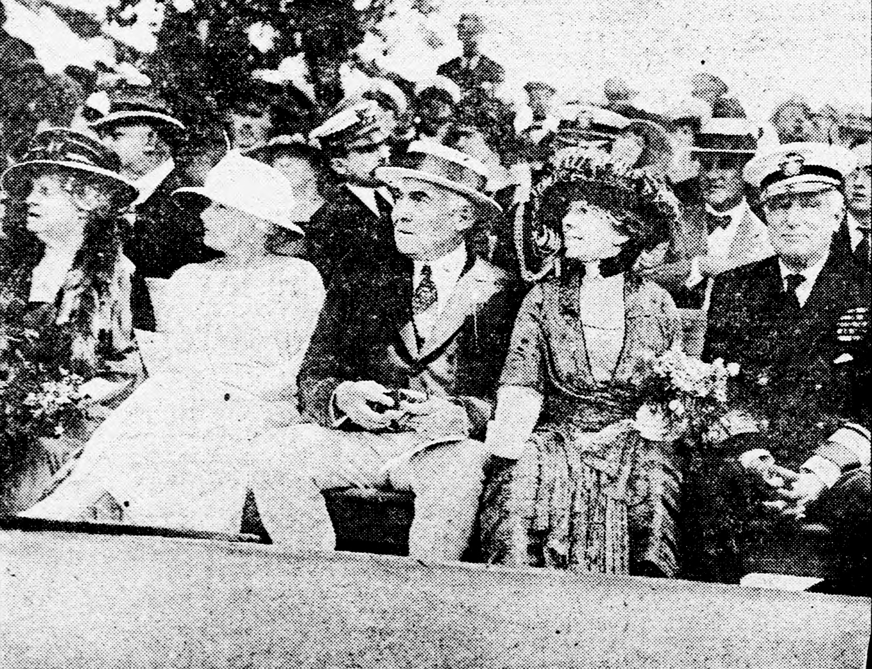 Contemporary newspaper caption: The President and Mrs. Harding see Navy defeat Army in base ball game at Annapolis yesterday. Left to right: Mrs. Weeks, Mrs. Wilson, wife of Admiral Wilson, commandant of Navy Academy; Mrs. Harding and Admiral Wilson.